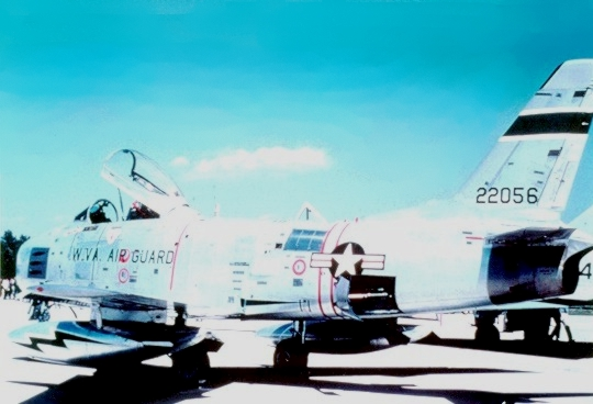 A U.S. Air Force North American F-86H-1-NA Sabre (s/n 52-2056) of the 167th Tactical Fighter Squadron, West Virginia Air National Guard. The 167th flew the F-86H from 1958 to 1961.